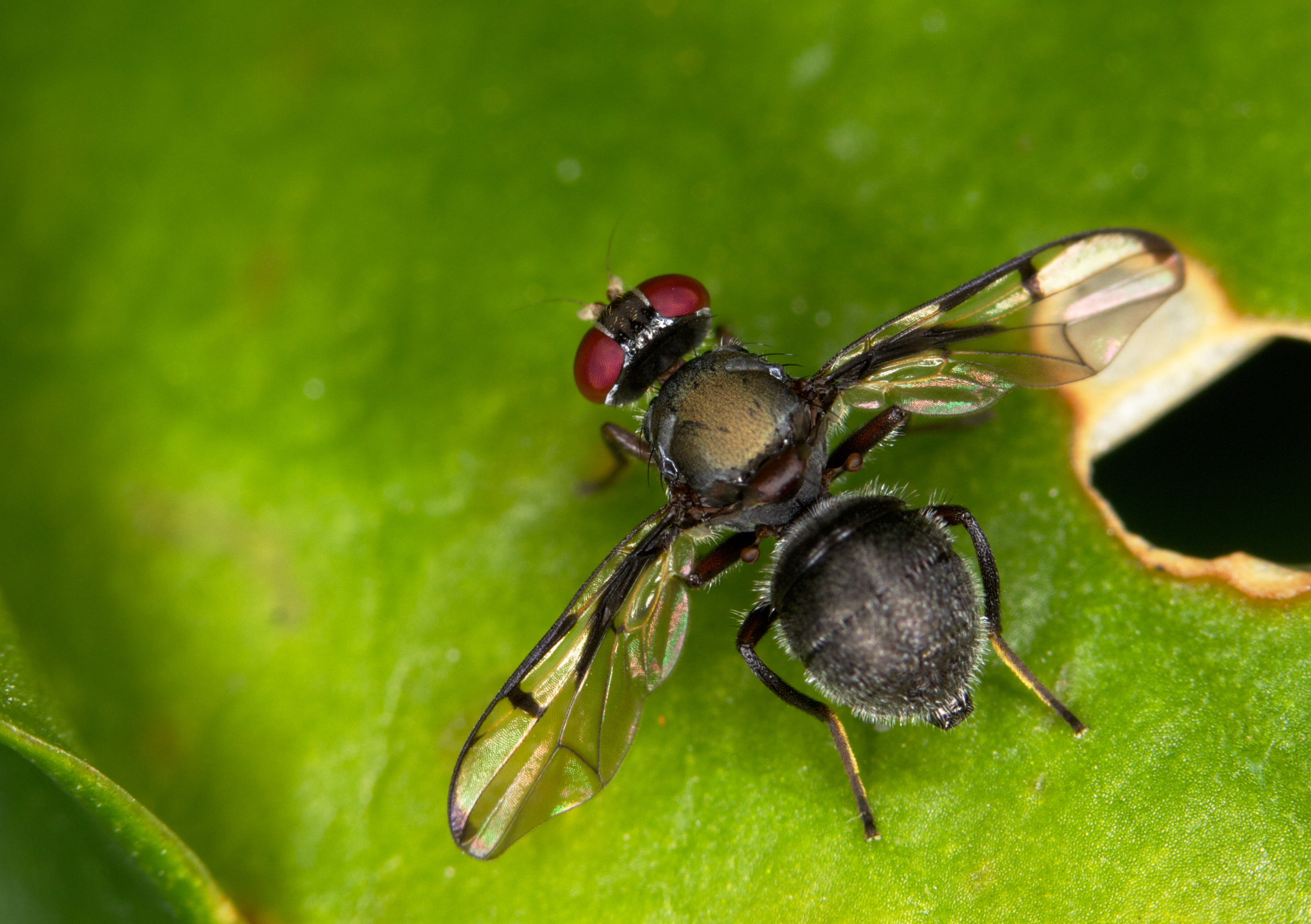 boatman fly